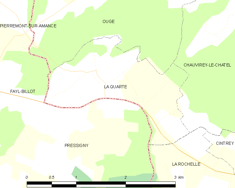 Map of French municipality